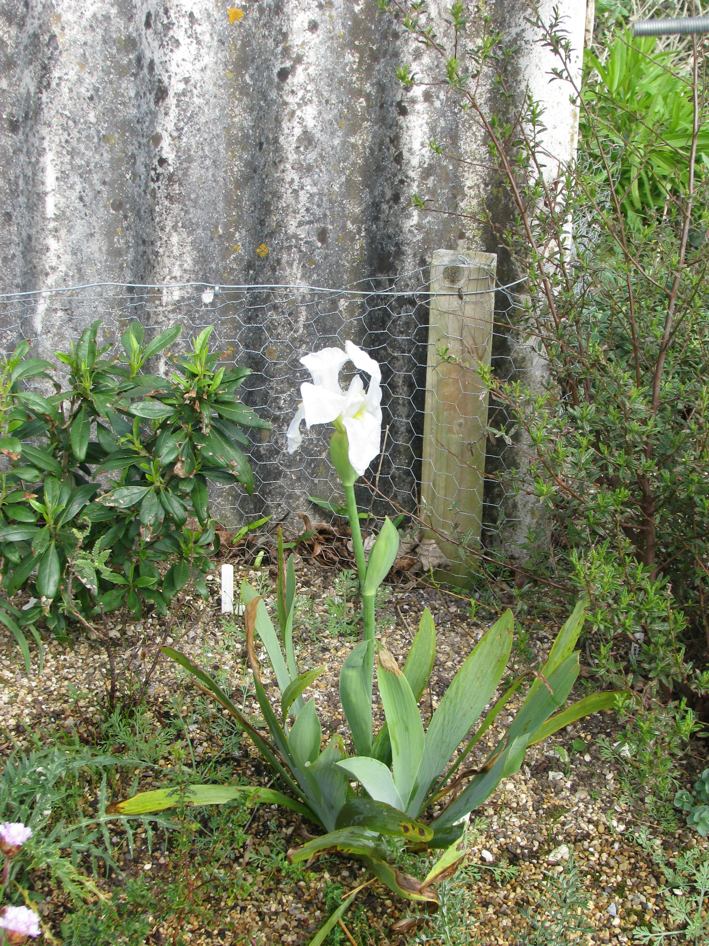 First flowering of this too